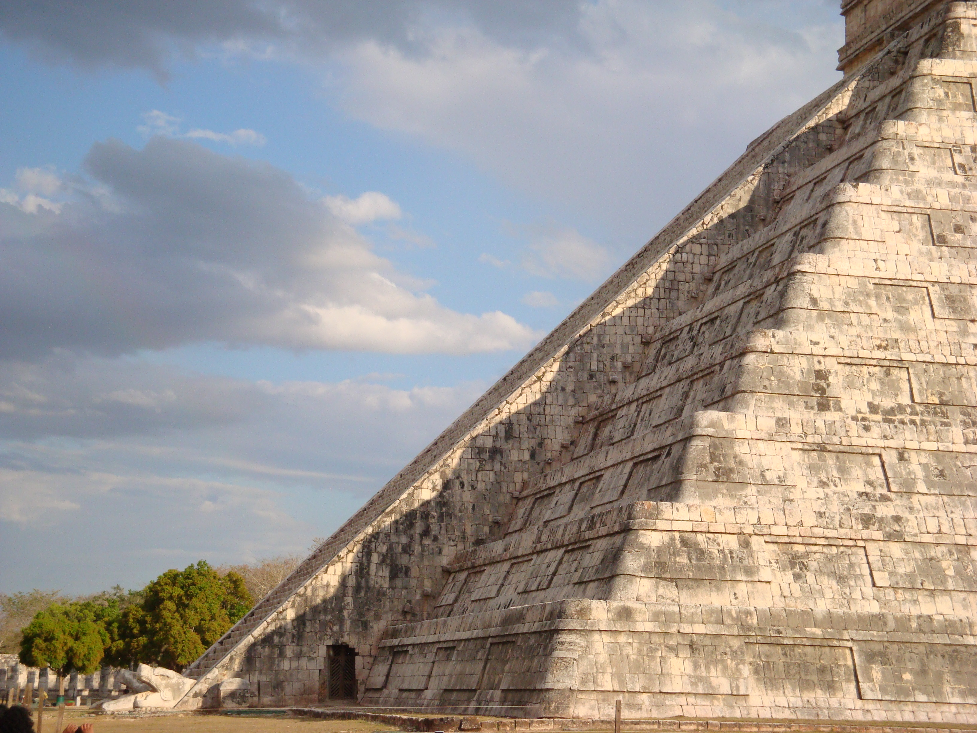 Kukulkan at its finest during the March Equinox. Chichen Itza Equinox March 2009. The famous descent of the snake at the temple.